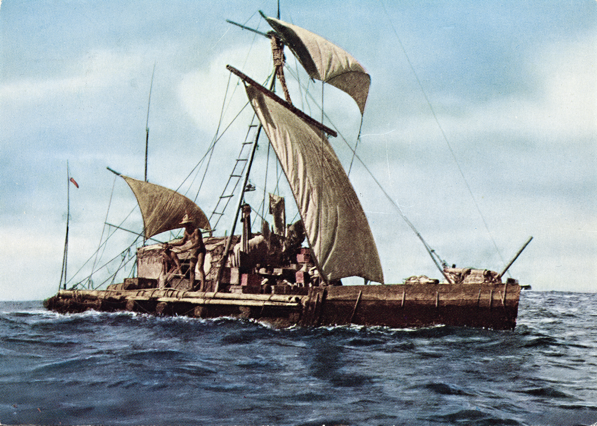 Tittel / Title: Expedition Kon-Tiki 1947. Across the Pacific. Beskrivelse / Description: Postkort / Postcard. Dato / Date: 1947 Fotograf / Photographer: ukjent / unknown Utgiver / Publisher: Mittet Sted / Place: Stillehavet Eier / Owner Institution: Nasjonalbiblioteket / National Library of Norway Lenke / Link: Bildesignatur / Image Number: blds_05860